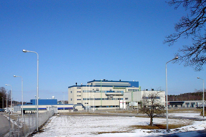 PCAS Finland Oy API plant